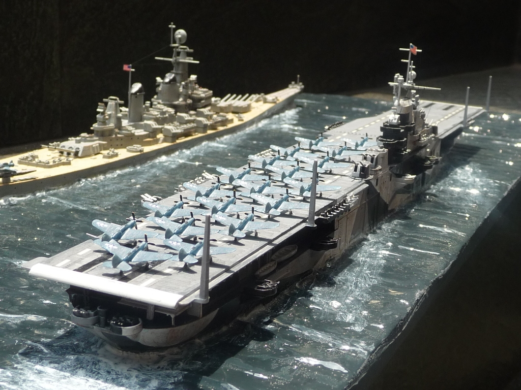 USS Intrepid CV-11 & USS New Jersey